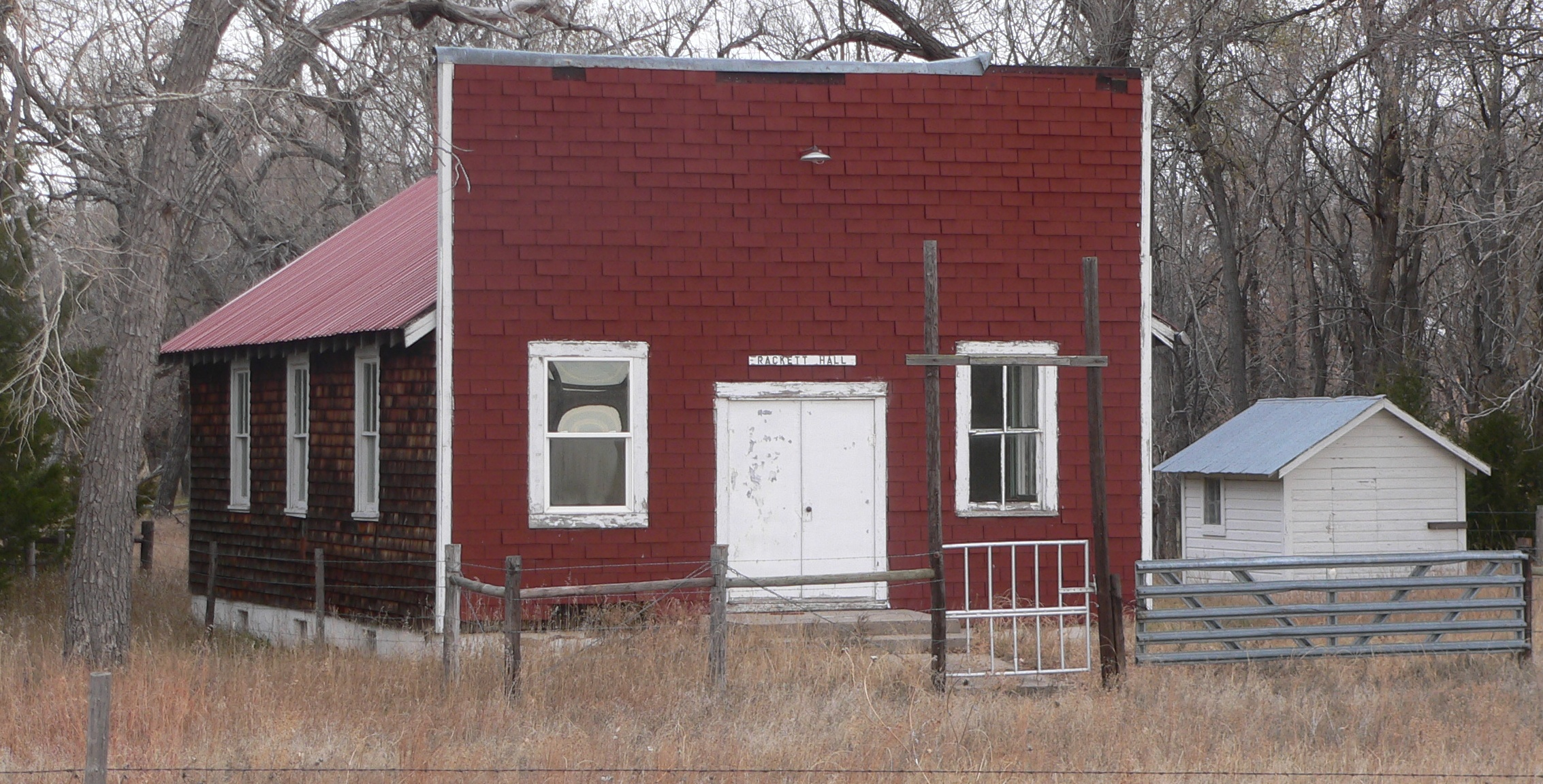 Rackett Hall, located on county road 193 in rural |Garden County, Nebraska ; about 24 miles (driving distance) north-northeast of Oshkosh, Nebraska.